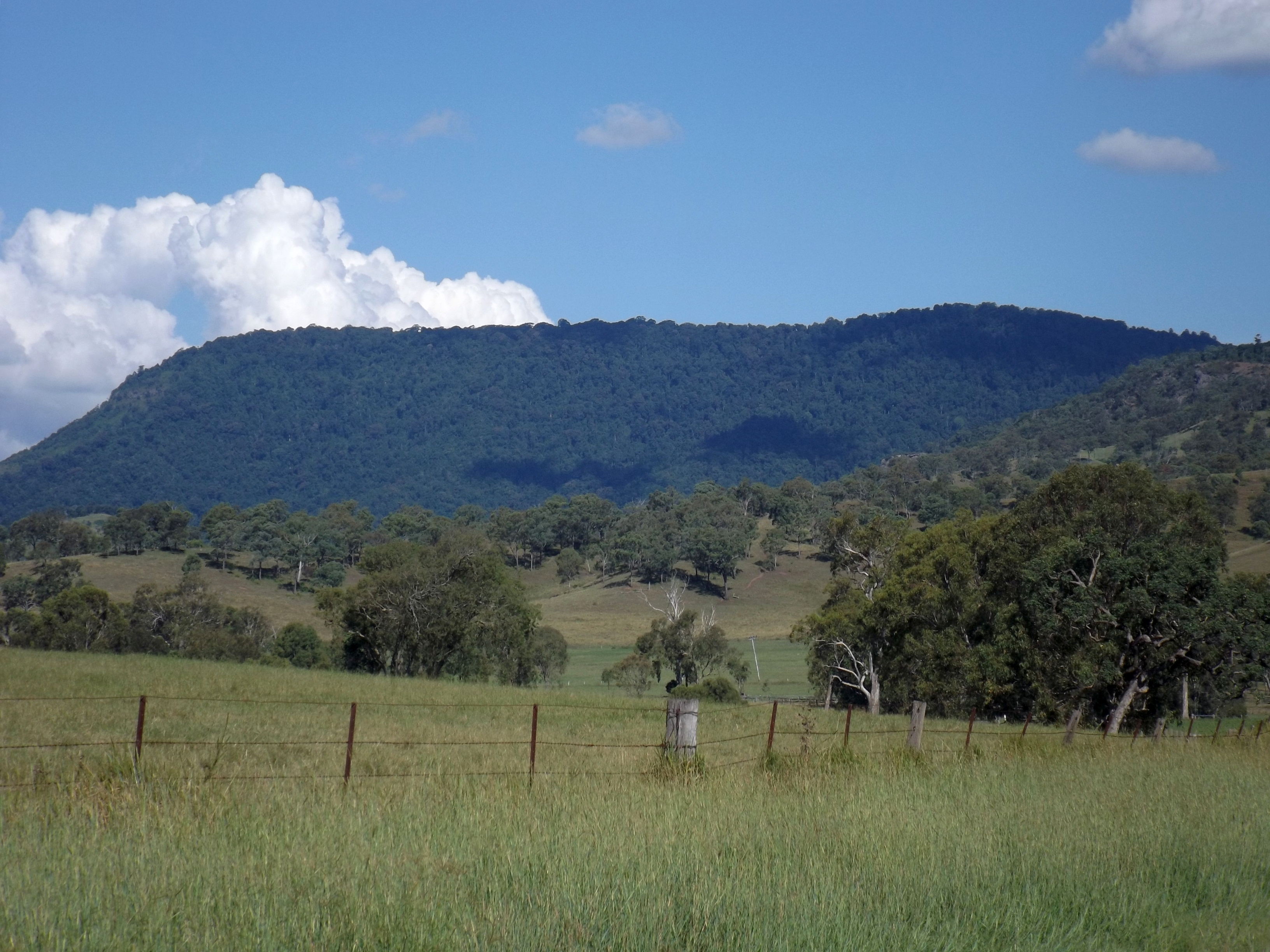 Photo of Mount Chingee at Running Creek, Scenic Rim Region, Queensland, Australia.